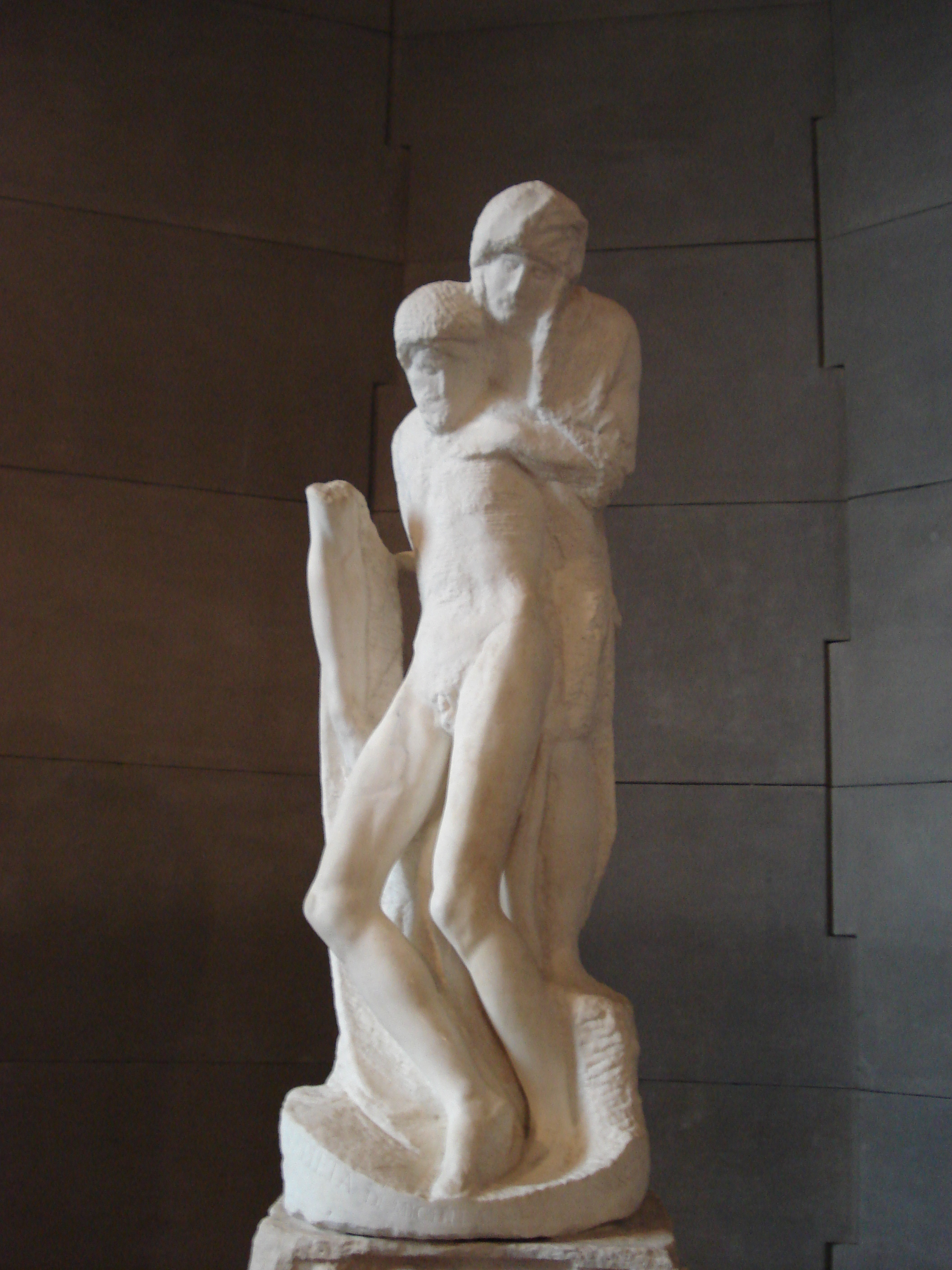 Michelangelo, the the so called "Pietà Rondanini", his last, incomplete sculpture (1564). It is now patrimony of the Museo d'arte antica in the Sforza Castle in Milan, Italy.